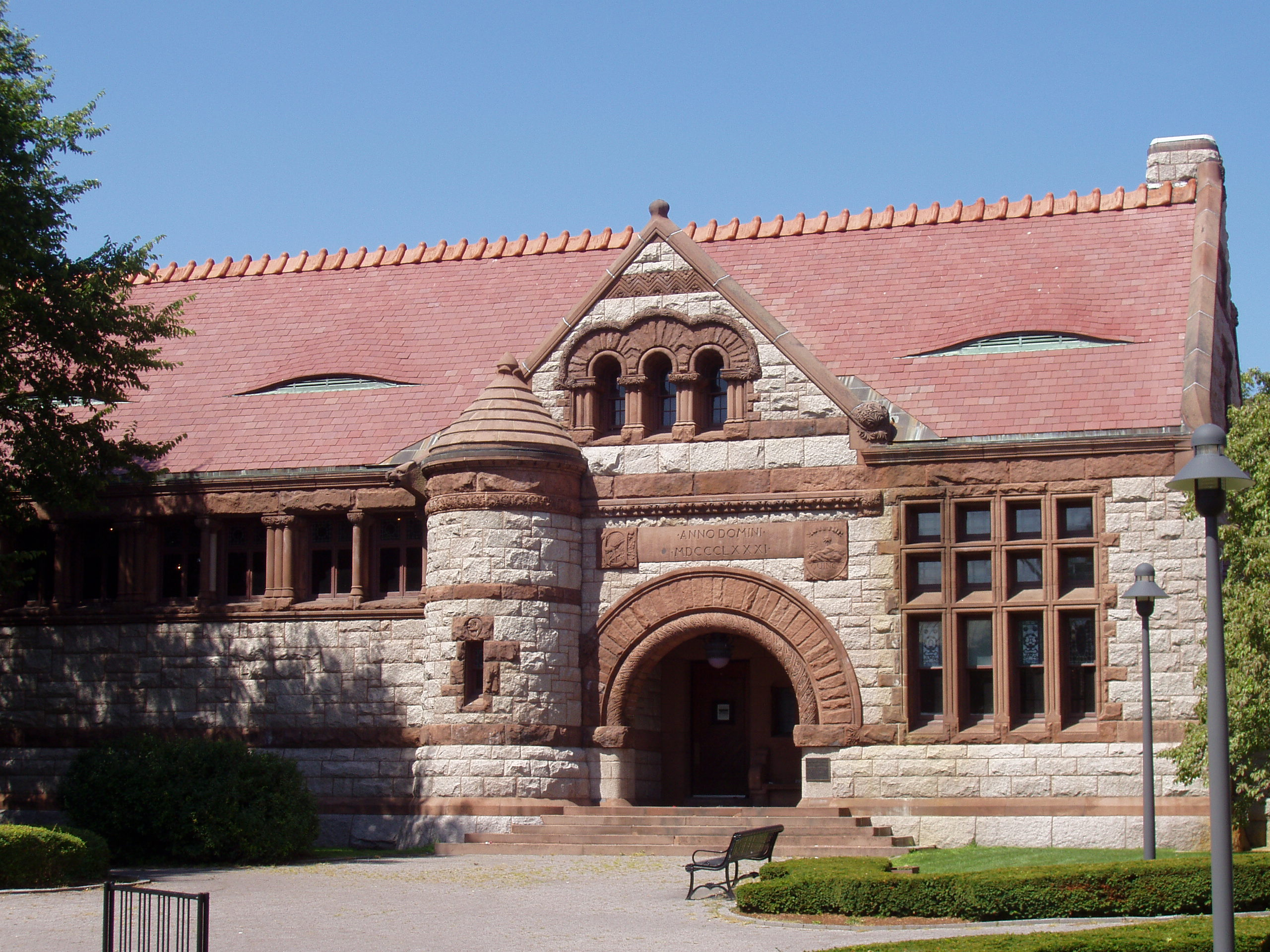 Thomas Crane Public Library, Quincy, Massachusetts (Front view of the original part of the building). Architect H. H. Richardson, 1882. Photograph taken by me, August 2005